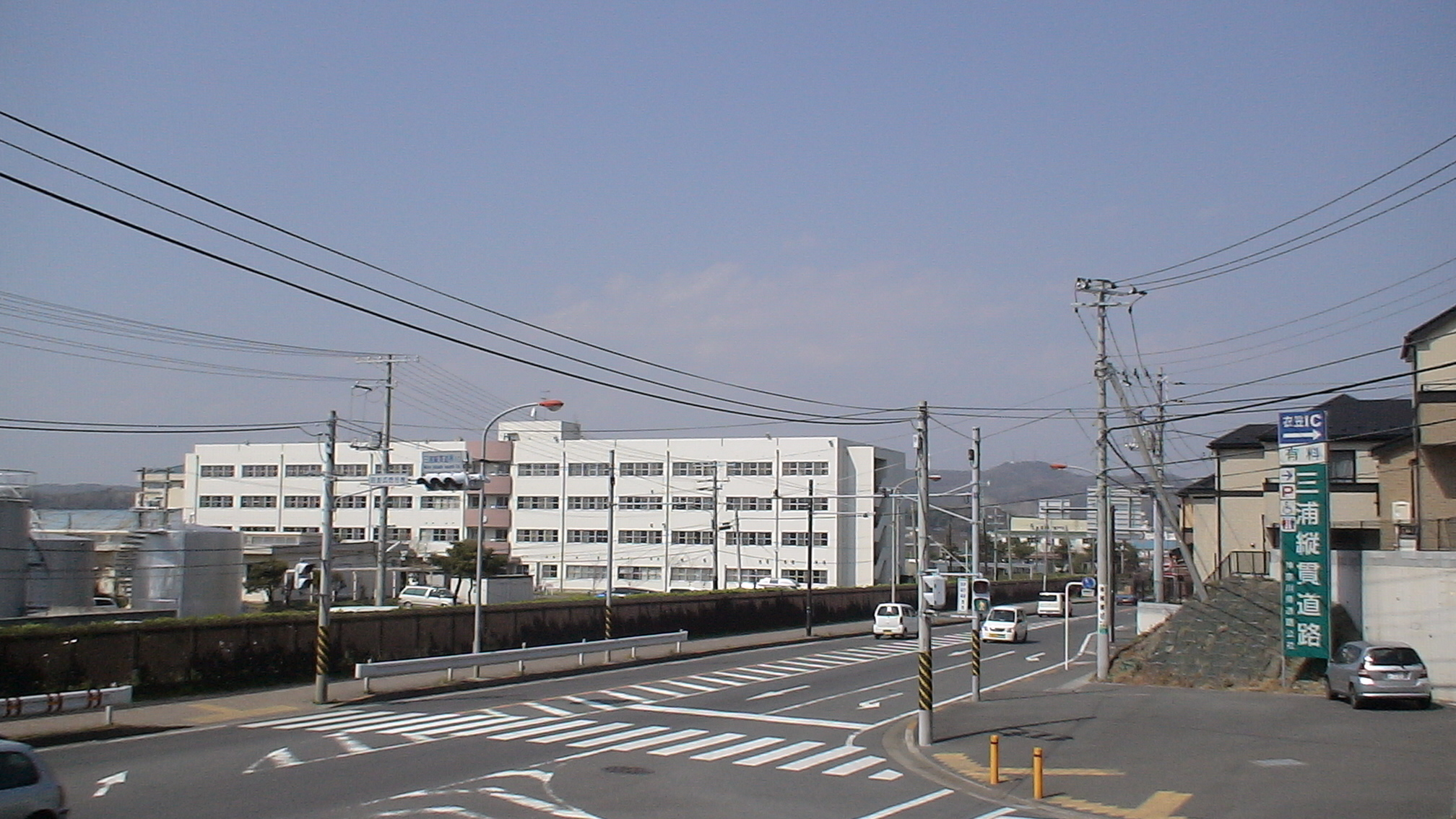 JGSDF Youth Technical School,Yokosuka Kanagawa